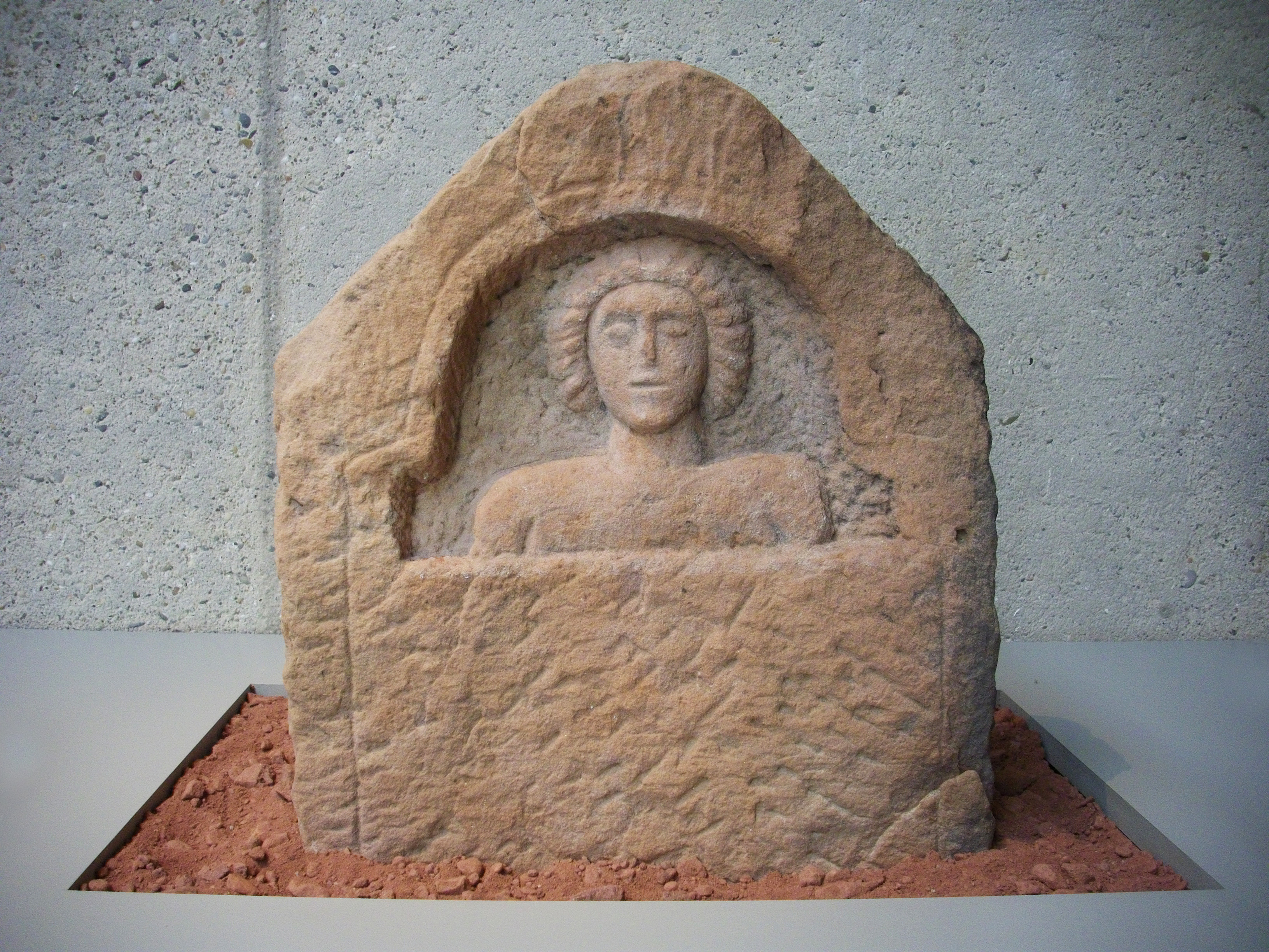 Gallo-Roman stele (sandstone) found in the Croix-Guillaume necropolis in Saint-Quirin (Moselle, France), kept in Musée du Pays de Sarrebourg.